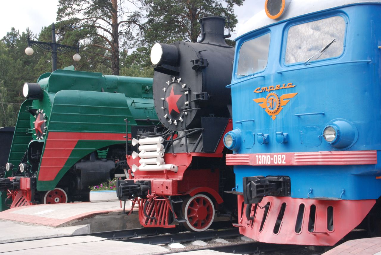 Trains standing in line at the Train Museum, Novosibirsk